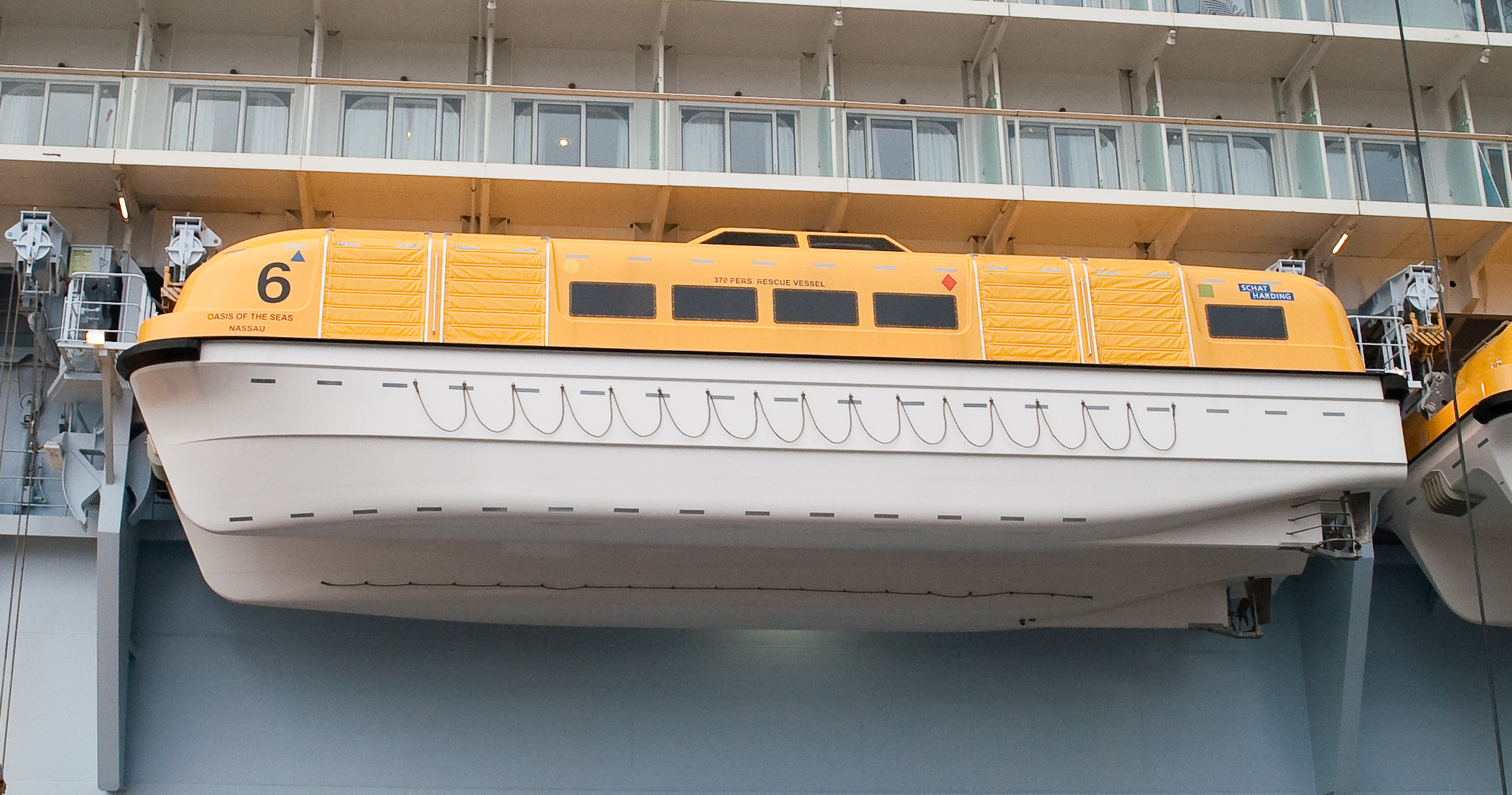 A 370 person capacity rescue vessel is attached and ready for use on the cruise ship MS Oasis of the Seas.